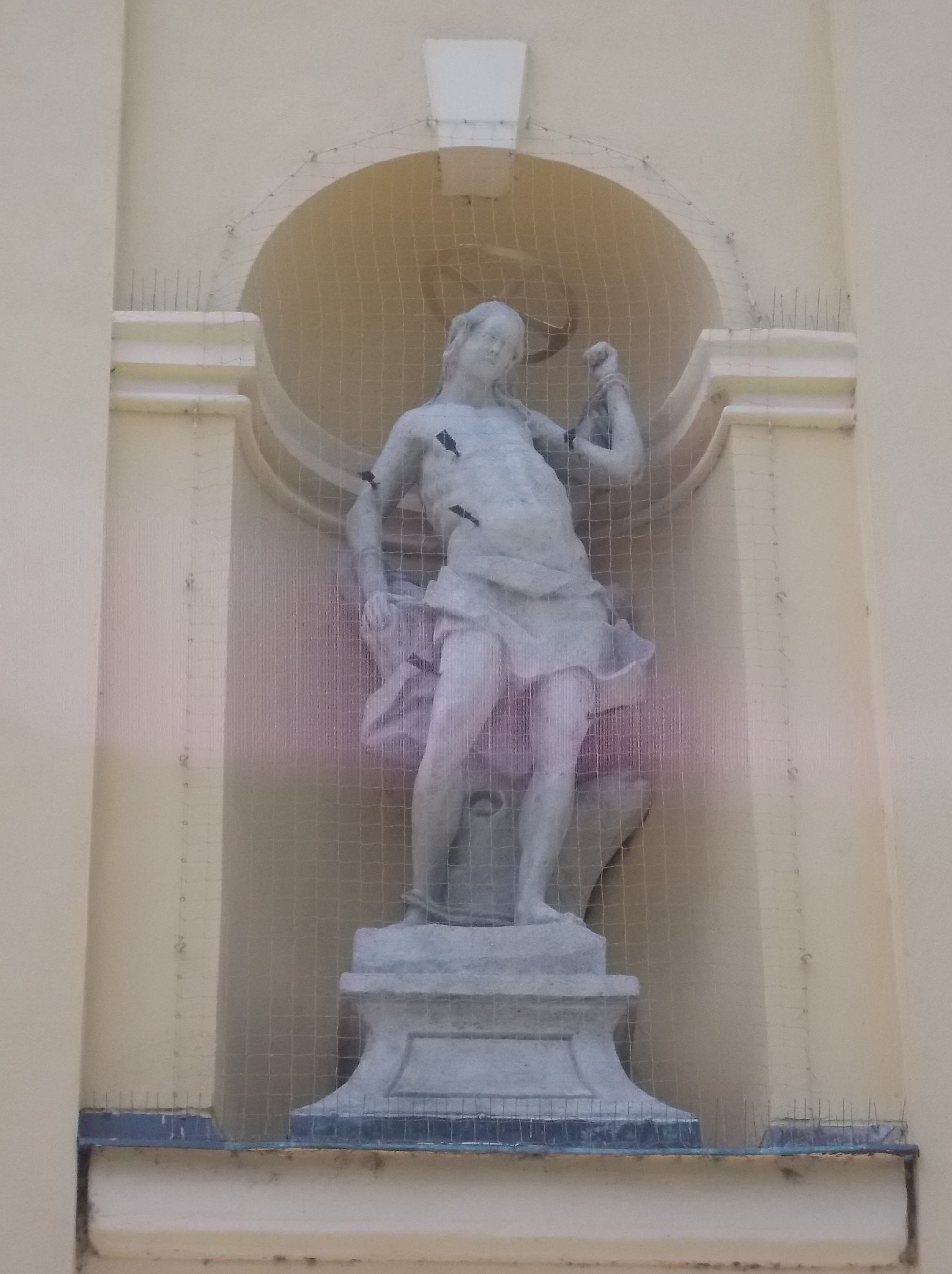 Szobordísz (Bebo Károly, 1749) a Szent Péter és Pál plébániatemplom főhomlokzatán. Műemlék ID 371. - Magyarország, Budapest, III. kerület, Óbudai utca 5.v 7., Lajos utca 170., Templom utca 5. This is a photo of a monument in Hungary, Identifier: 371